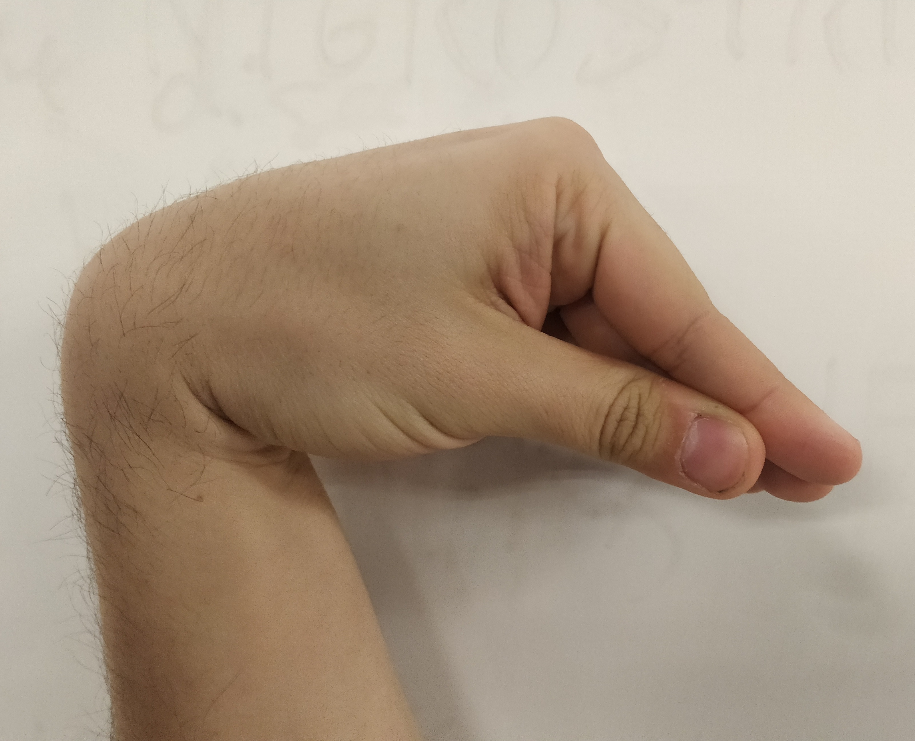 Recreation of positive Trousseau's Sign of Latent Tetany, pointing towards hypocalcemia. Note flexed wrist, flexed MCP's, and extended PIP and DIPs.